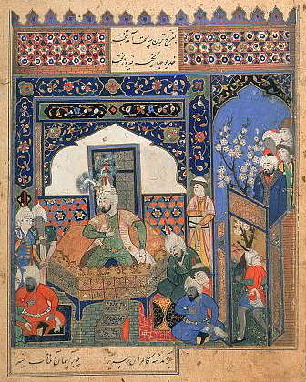 Timur (Tamerlane) is enthroned at Balkh, Afghanistan. Timur sits on a raised dais; people outside are visible through an arch, those inside sit cross-legged. The interior is decorated in the Islamic style with floral patterns and tiling. Persian text above. 0487822